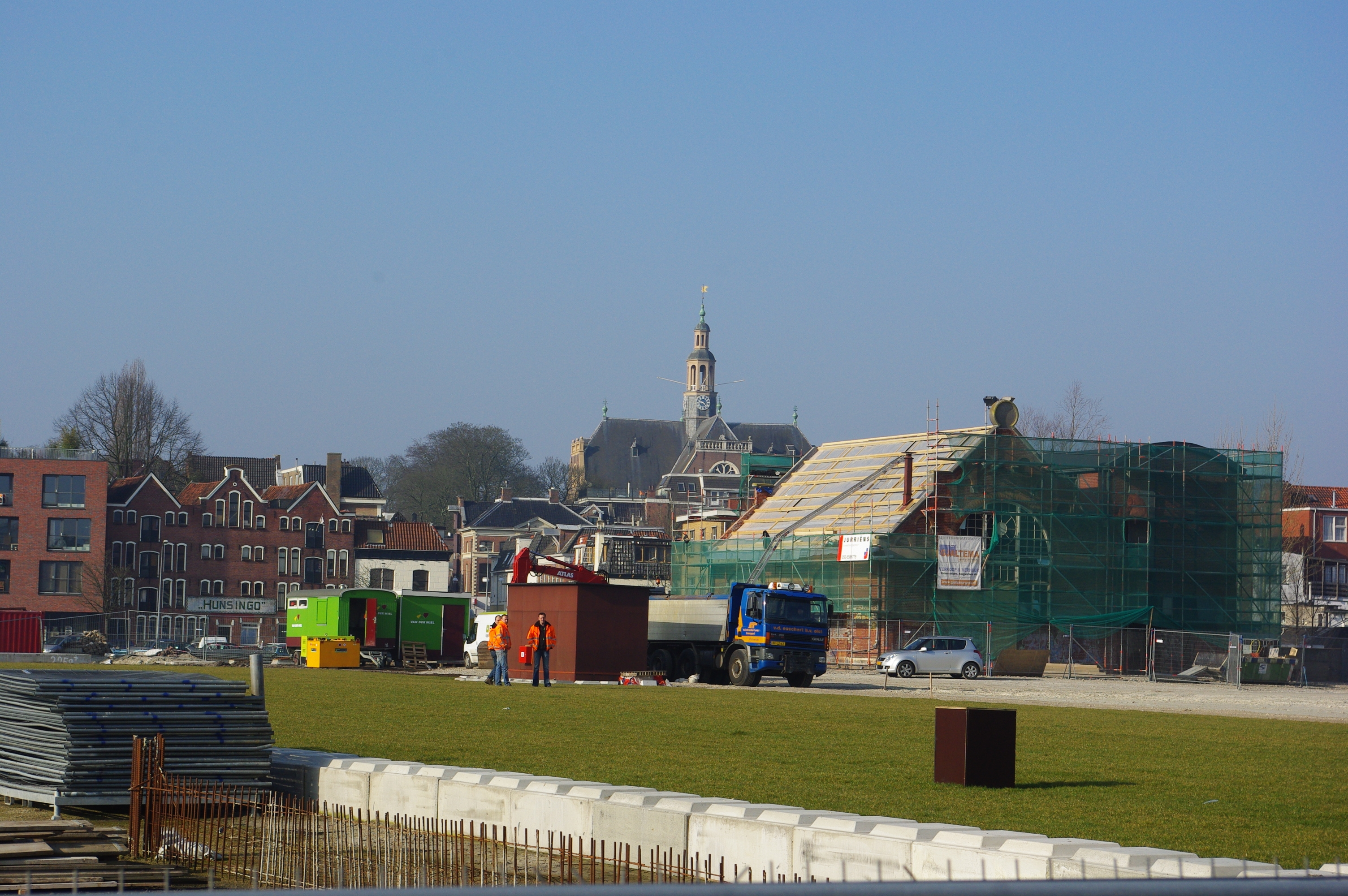 The former Gasfabriek left an open space in the Hortusbuurt. This space is going to be the home of many families in the future. In the meantime it is being used as a city playground for the creative class.